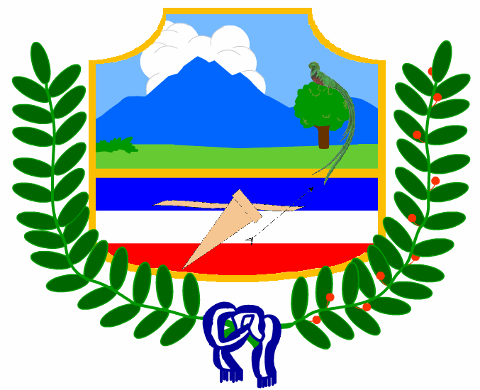 coat of arms of the former state of Los Altos (Central America) Emerson